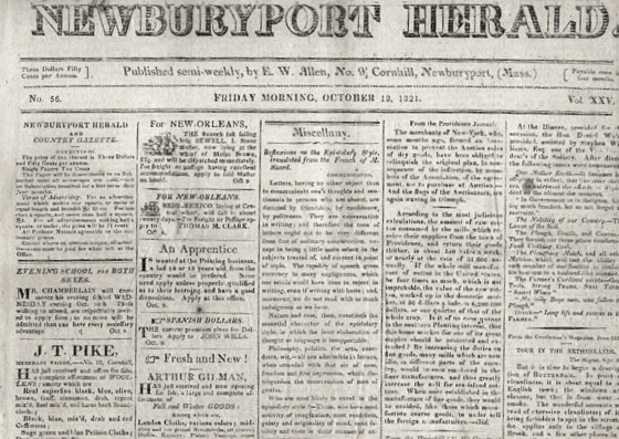 Newspaper, October 12 1821 Issue of the Newburyport Herald of Newburyport, Massachusetts, USA